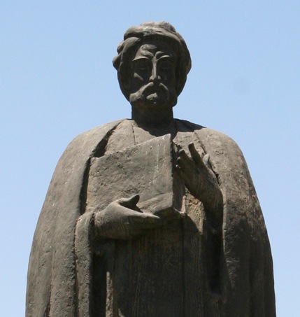 Statue of Ibn Khaldun in front of the Cathedral of St. Vincent de Paul, Avenue Habib Bourguiba, Tunis.